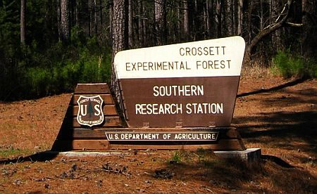 Highway sign at entrance to Crossett Experimental Forest, Ashley County, Arkansas, USA